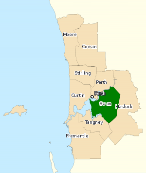 This image incorporates data that is: © Commonwealth of Australia (Australian Electoral Commission) 2009 Division of Swan 2010